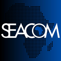 Seacom's logo to be used for all mentions of Seacom or the subsea cable system owned by Seacom.mu.